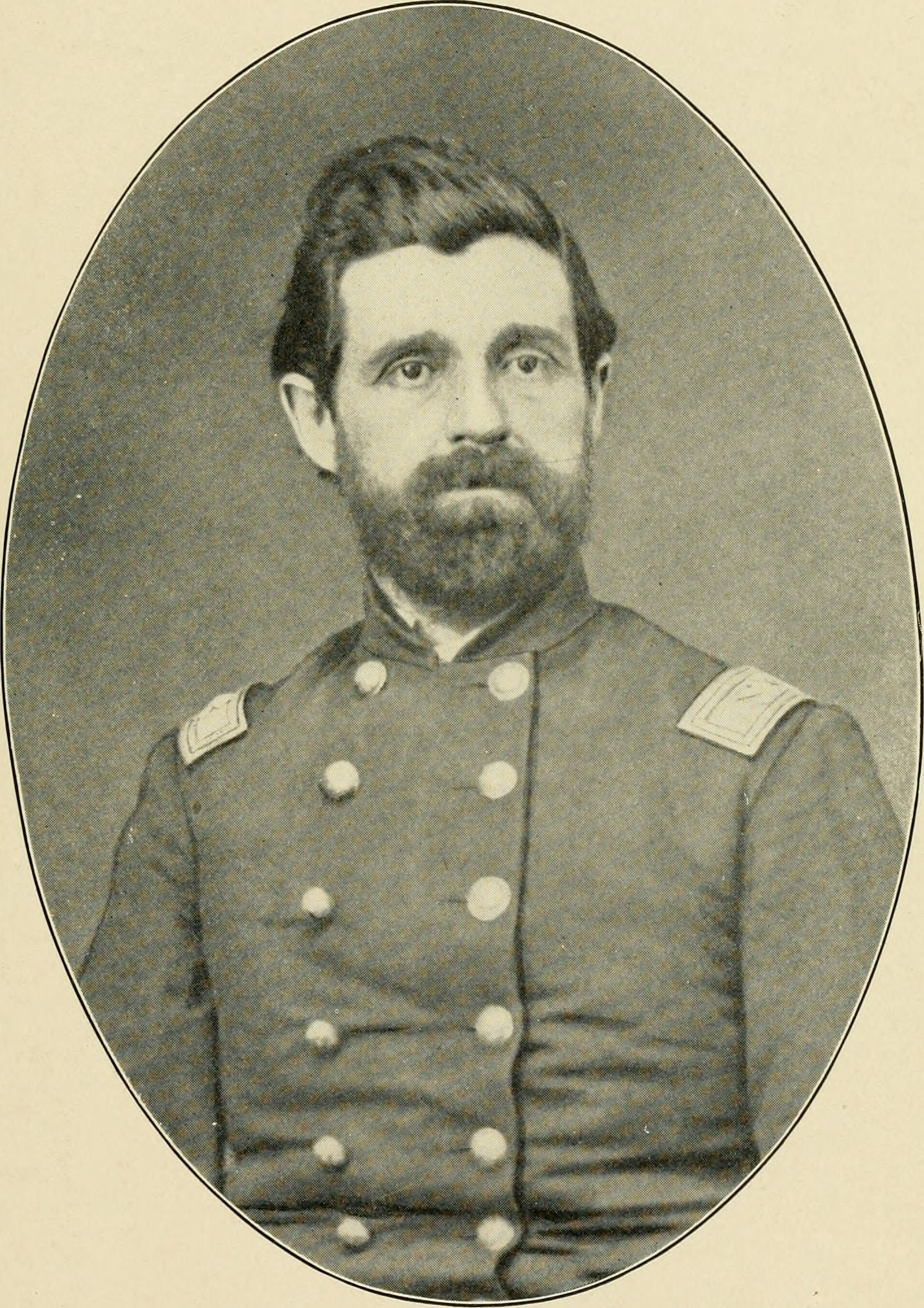 Title: Reminiscenes of the civil war; Year: 1907 (1900s) Authors: Lyon, William Penn, 1822- (from old catalog) Lyon, Adelia Caroline Duncombe, Mrs, (from old catalog) comp Subjects: Wisconsin infantry United States -- History Civil war, 1861-1865 Personal narratives. (from old catalog) United States -- History Civil war, 1861-1865 Regimental histories Wis. inf. 13th. (from old catalog) Publisher: (San Jose, Cal., Press of Muirson & Wright) Text Appearing Before Image: -mediate commands, who desires to have it. This pur-pose will be executed not because the volume has muchintrinsic value, but in grateful recognition of the life-long affection those veteran comrades have constantlymanifested for their old commander; and for their un-ceasing kindness to me and solicitude for my personalwelfare and comfort when I was with them in the fieldof service—a witness of their patriotism, courage andfidelity to duty. I trust that this little souvenir will beaccepted by them as an evidence that all of their kind-ness to us is appreciated and their affection tenderlyreciprocated. I have only to add that this publication has beenmade possible only by the valuable aid given me by ourdaughter, Mrs. J. O. Hayes (Clara Lyon), of Eden Vale,California, who has done much of the editorial workrequired in its preparation. Pursuant to a suggestion made by her, some publicaddresses delivered by her father several years ago areinserted herein as an appendix. Adelia C. Lyon. Text Appearing After Image: COLONEL WILLIAM P. LYON Racine, IVisconsin, 1863 REMINISCENCES OF THE CIVIL WAR